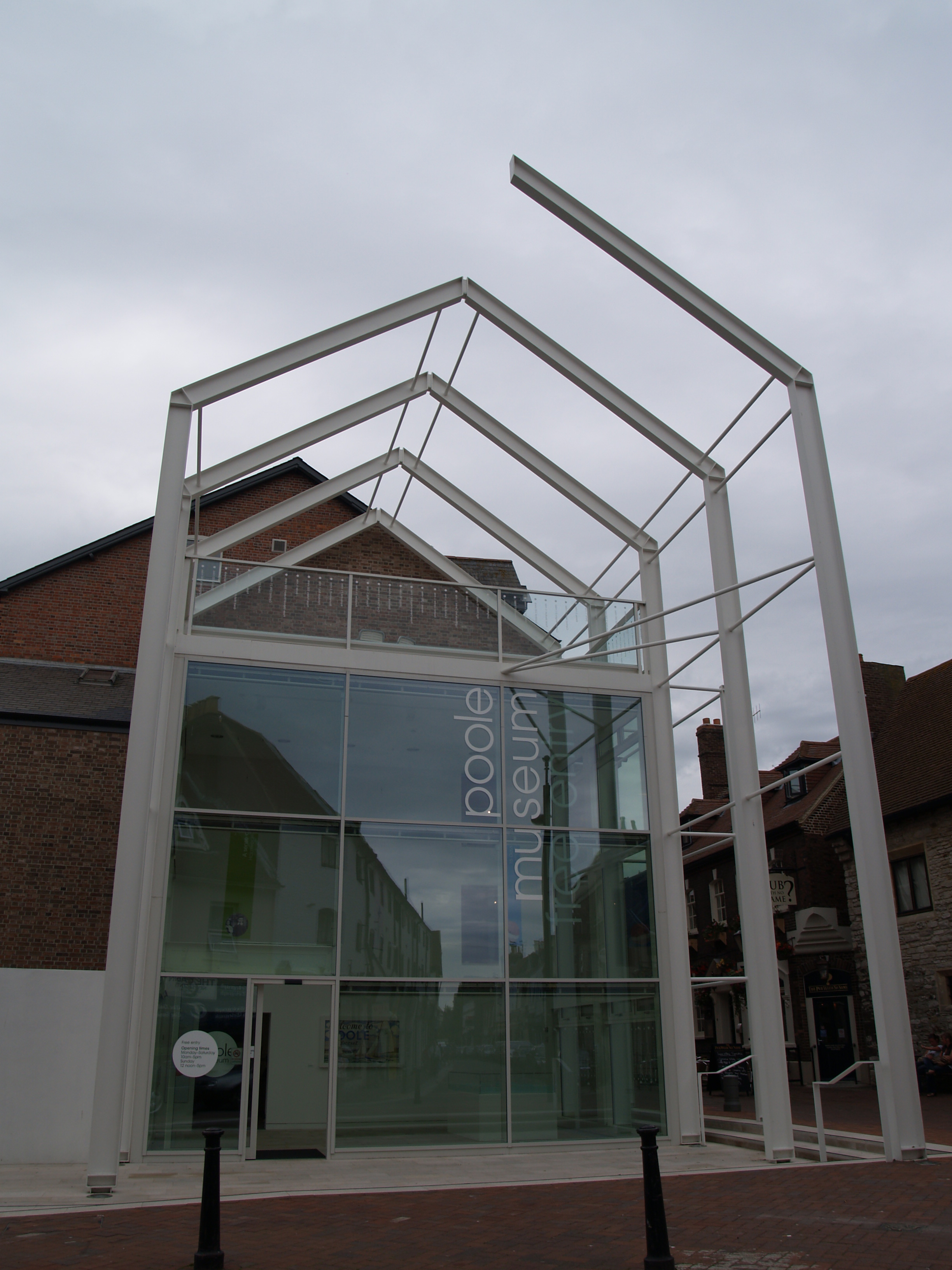 Entrance to to the Poole Museum.